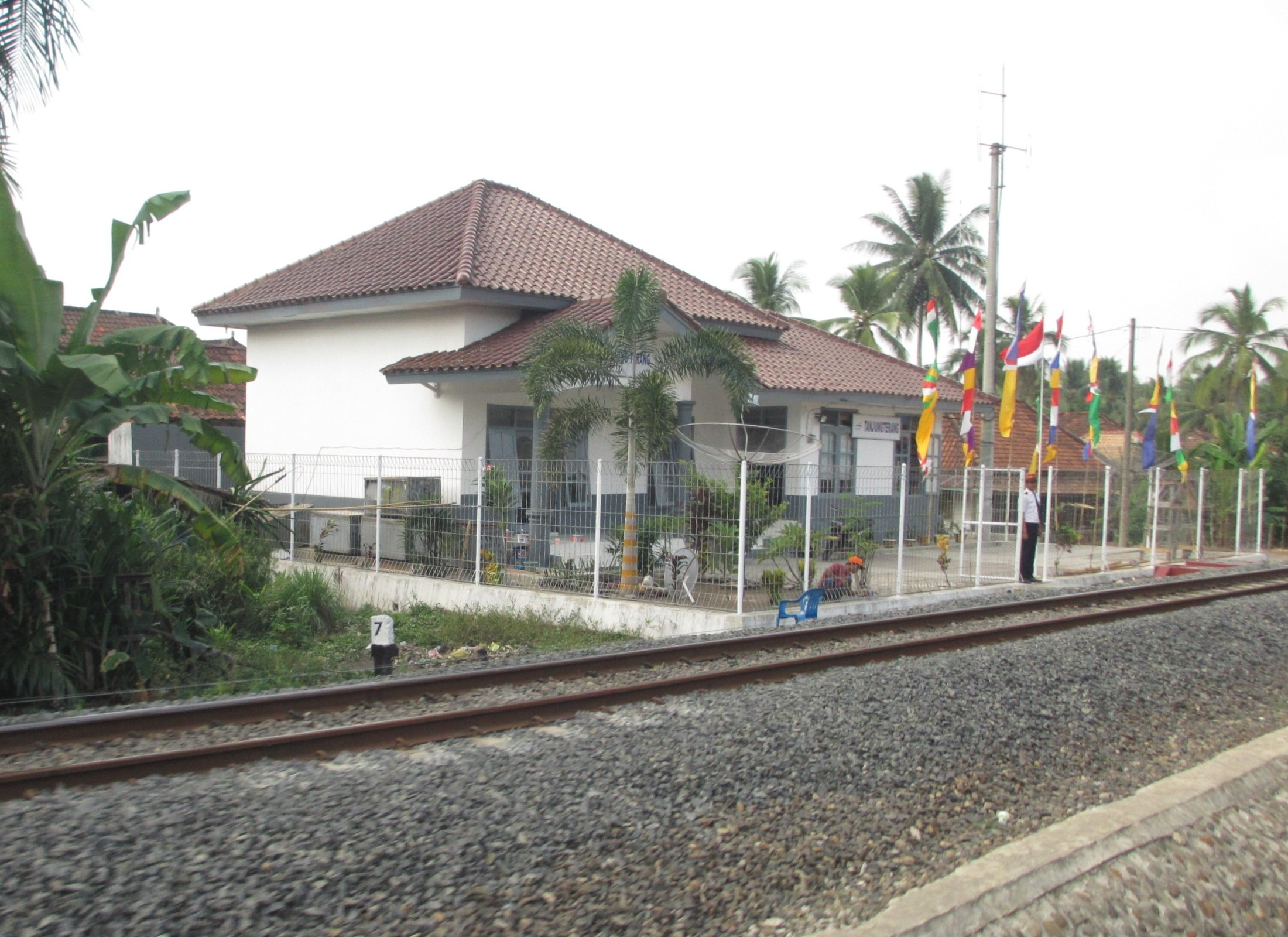 Tanjungterang Railway Station.